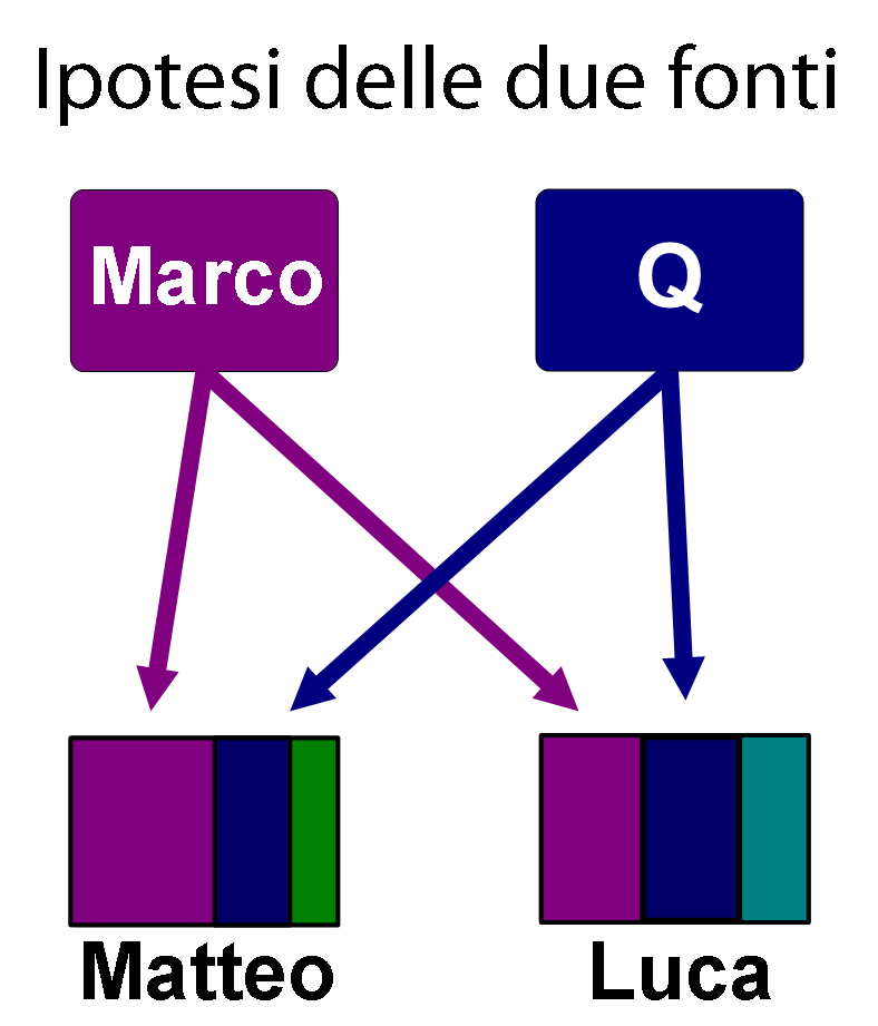 The Two-source Hypothesis to the synoptic problem